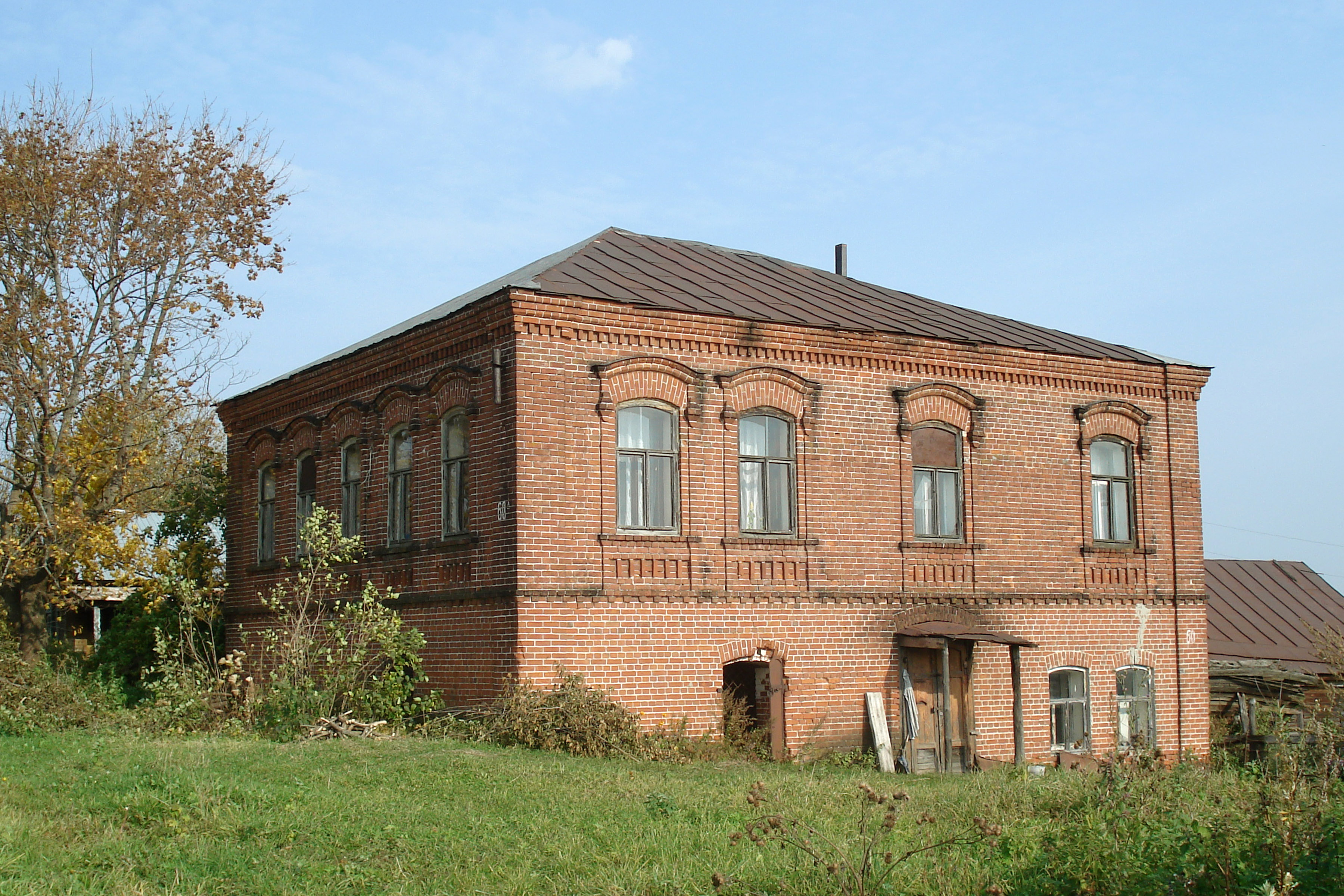 The Kokurin`s House (XIX century). The Village of Visokovo. Nizegorodskaya oblast. Russia.